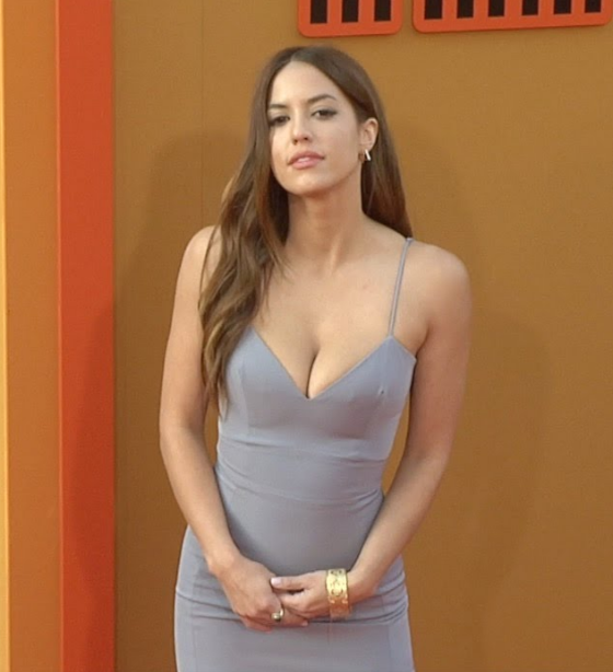 The Nice Guys Los Angeles